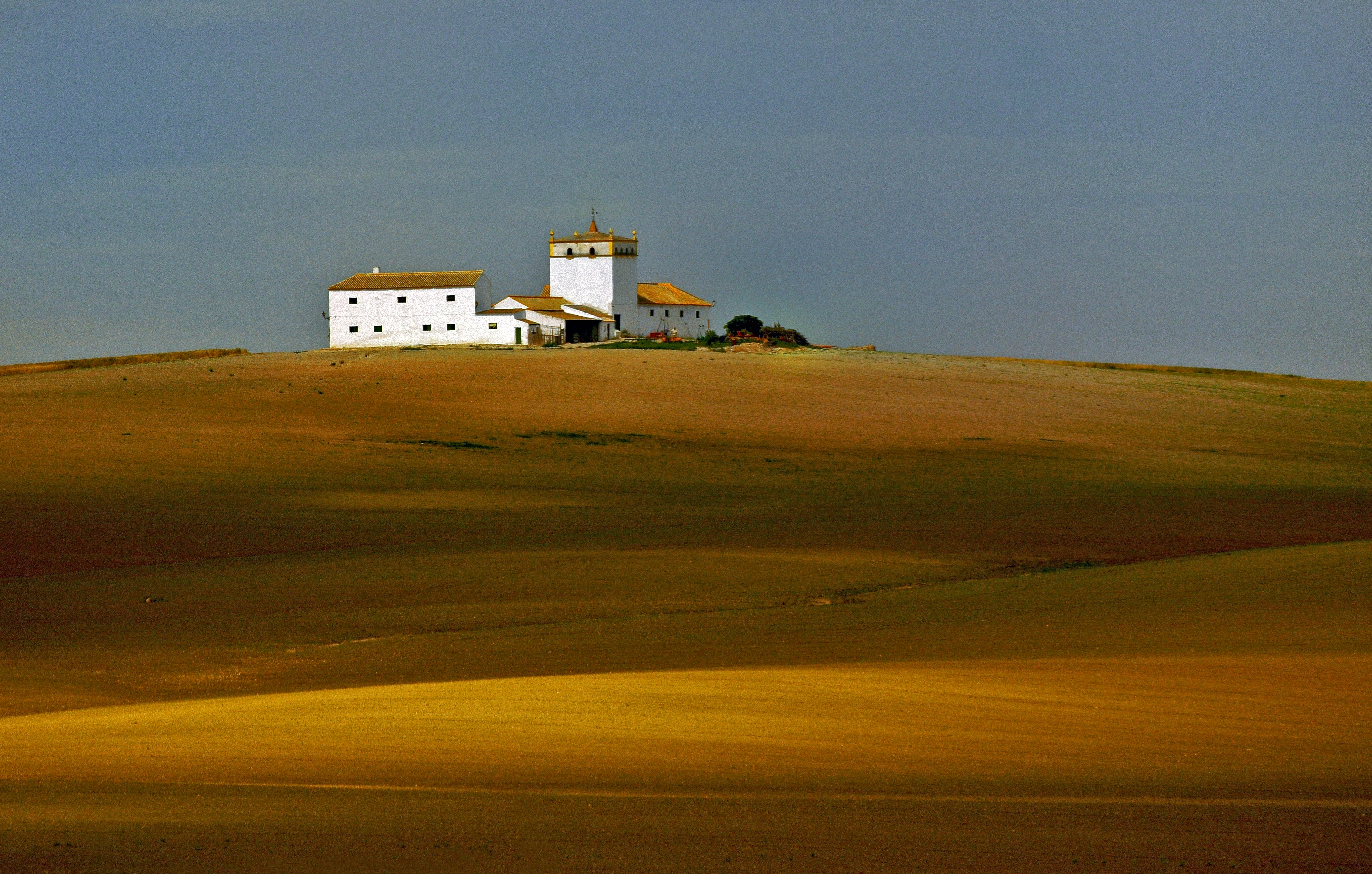 The golden land of Andalusia. Spain